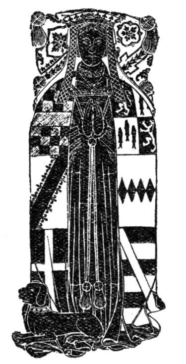 Fig. 22.—Brass of Margaret Percy (c. 1508–1540), a daughter of Henry Percy, 5th Earl of Northumberland, KG (13 January 1477 – 19 May 1527) by his wife Catherine Spencer. She married (as his second wife) Henry Clifford, 1st Earl of Cumberland KG (1493 – 22 April 1542). Skipton Parish Church, Cumbria. Arms: On the dexter side Clifford, on the sinister side Percy